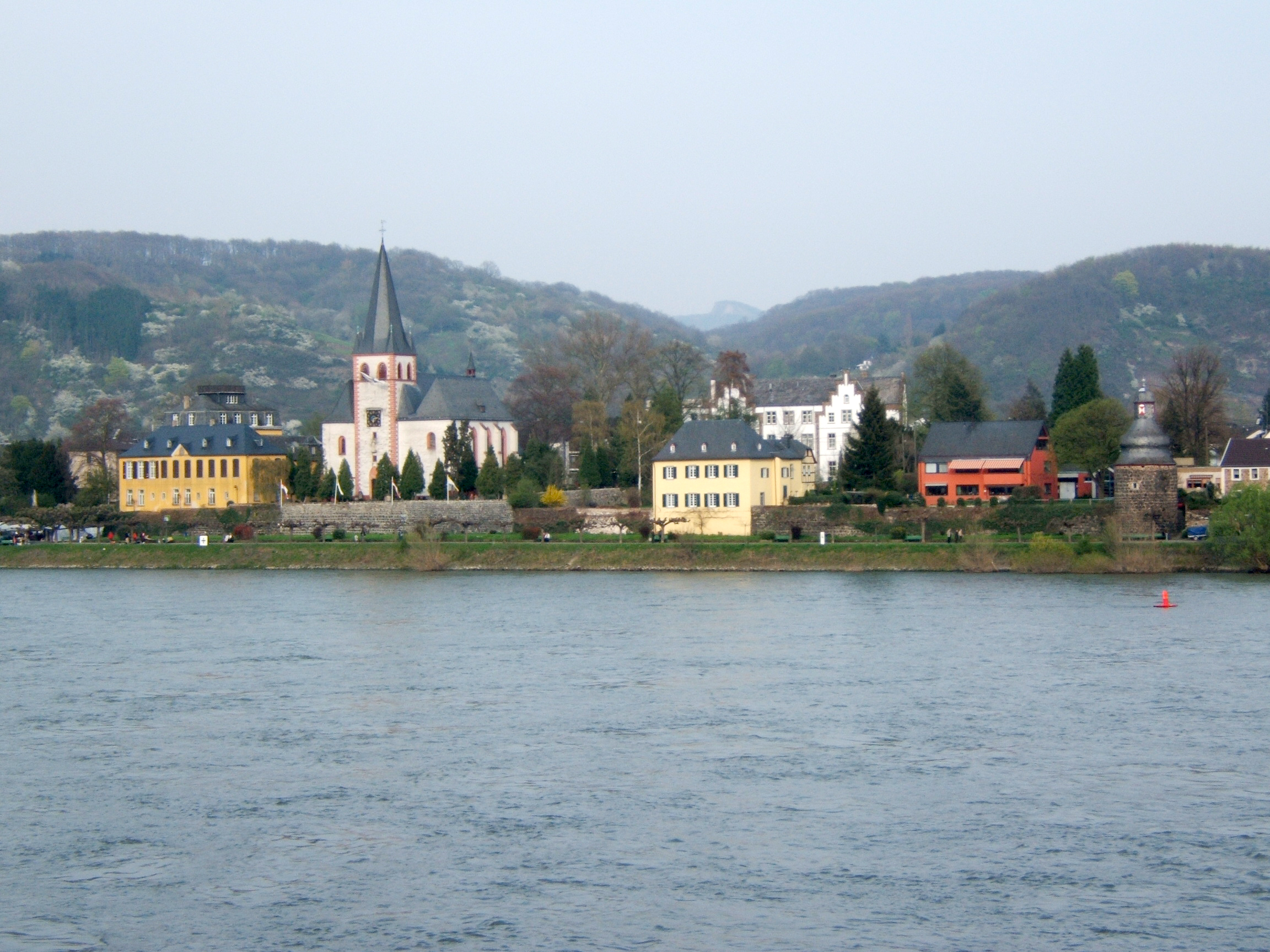 This image shows the rhine promenade in Unkel, viewed from Remagen.